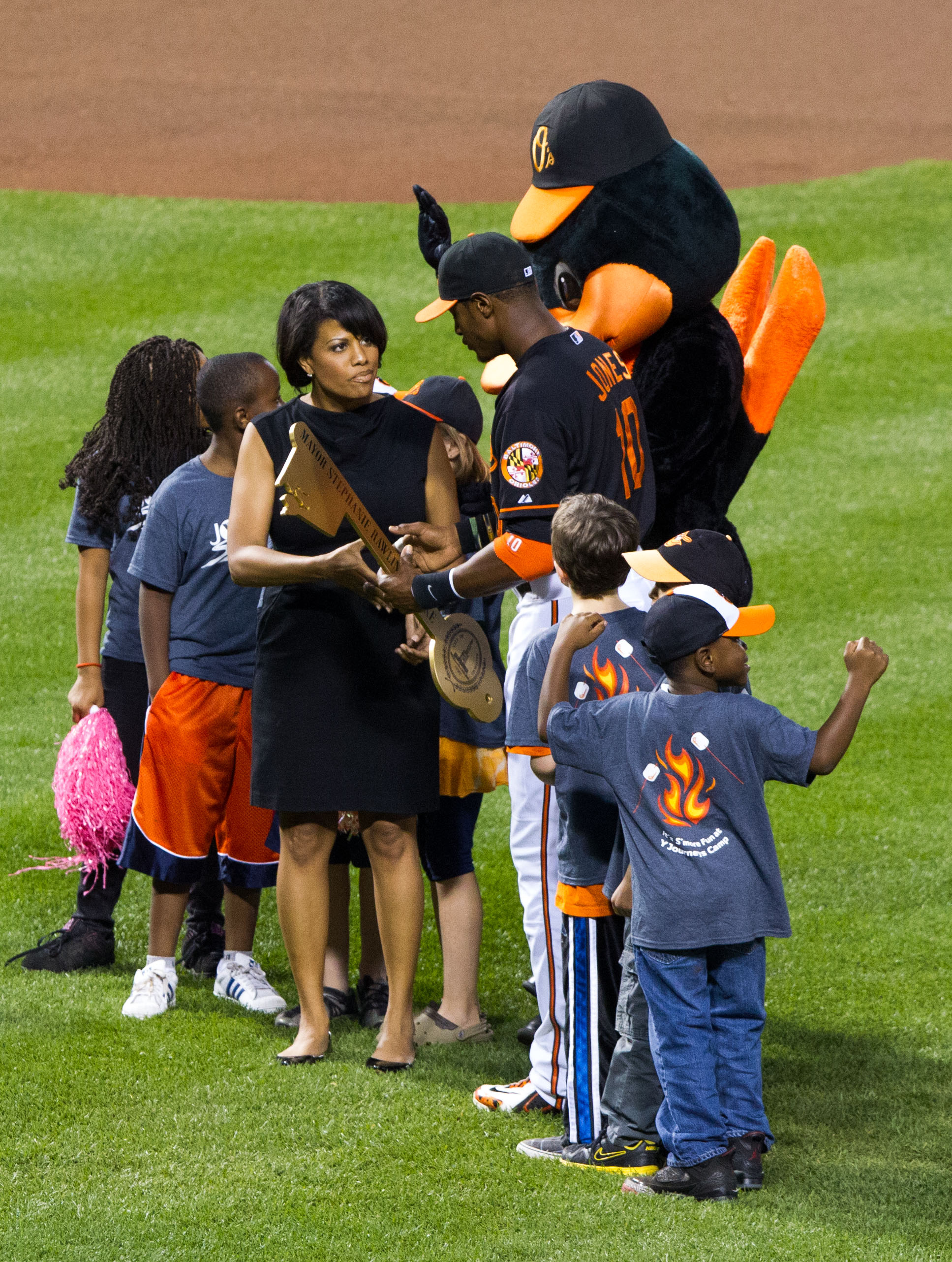 Baltimore Mayor Stephanie Rawlings-Blake and Orioles outfielder Adam Jones